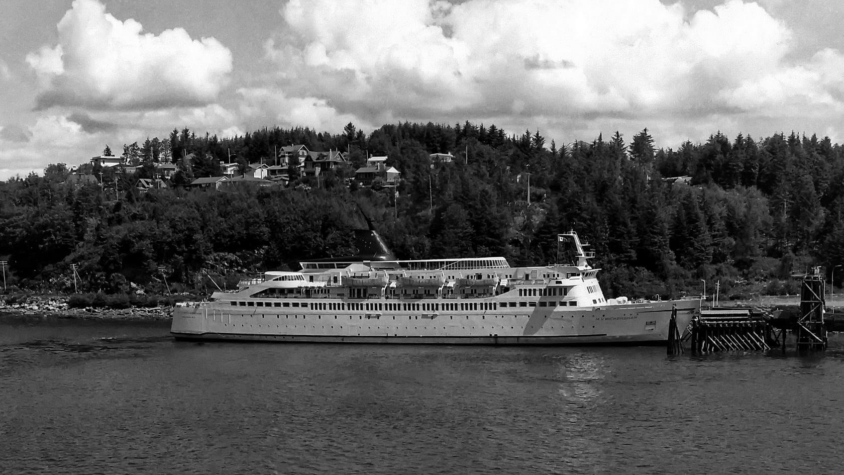 This view is from the wheelhouse of the BC Ferry Queen of Prince Rupert which, I assume, was waiting for the Wickersham to vacate the berth which at that time was shared by BC & Alaska ferries. The date given is an estimate.